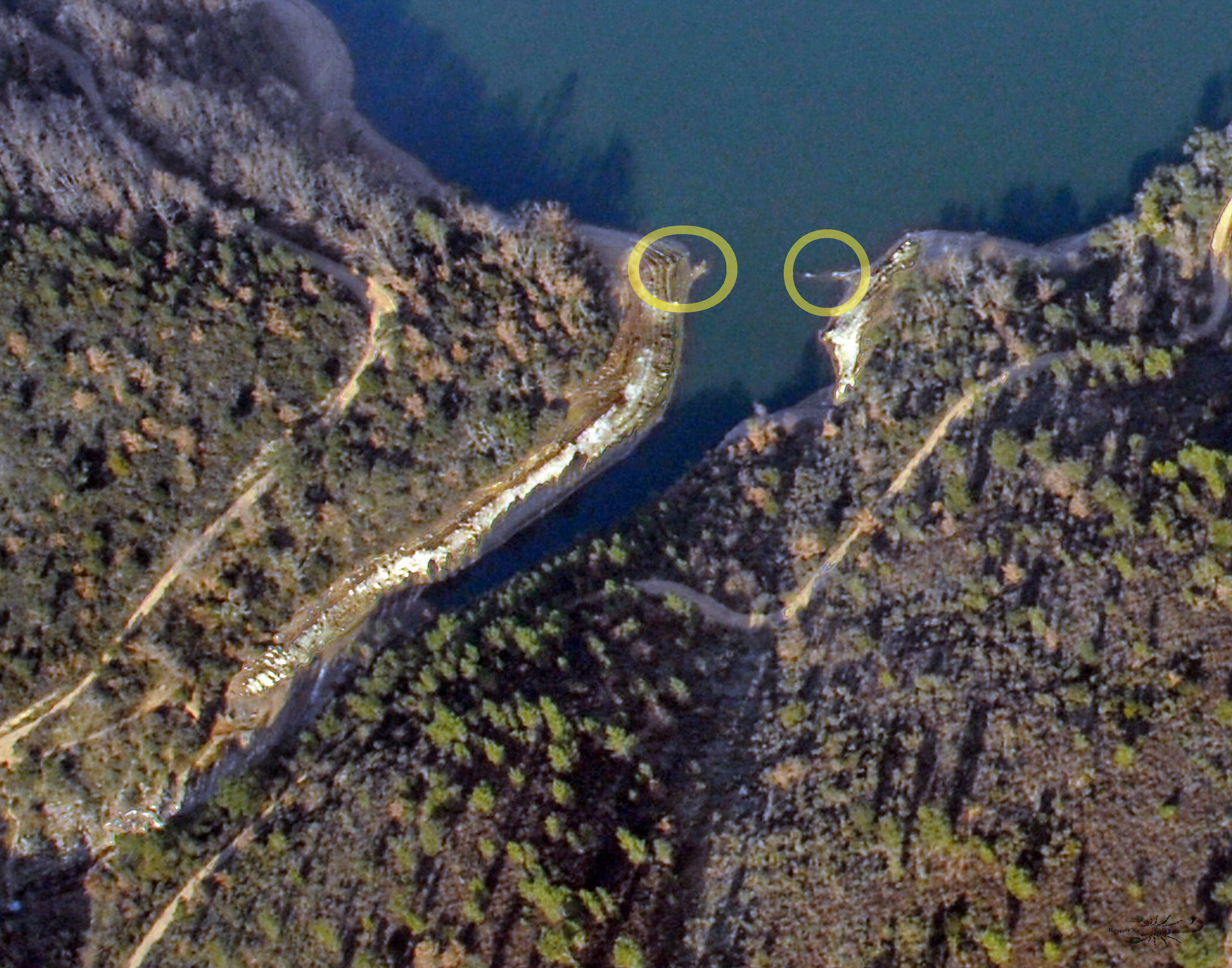 Larquet river in Fondurane Montauroux.